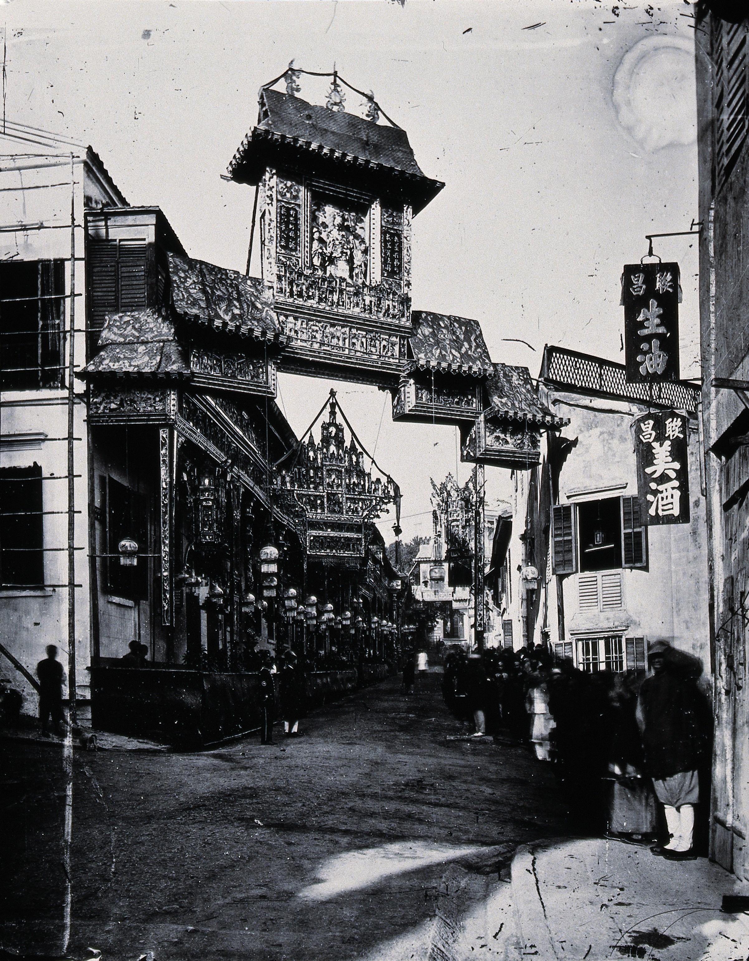 Chinese Street, Hong Kong, prepared for illumination, Lyndhurst Terrace Iconographic Collections Keywords: john thompson; China; John Thomson